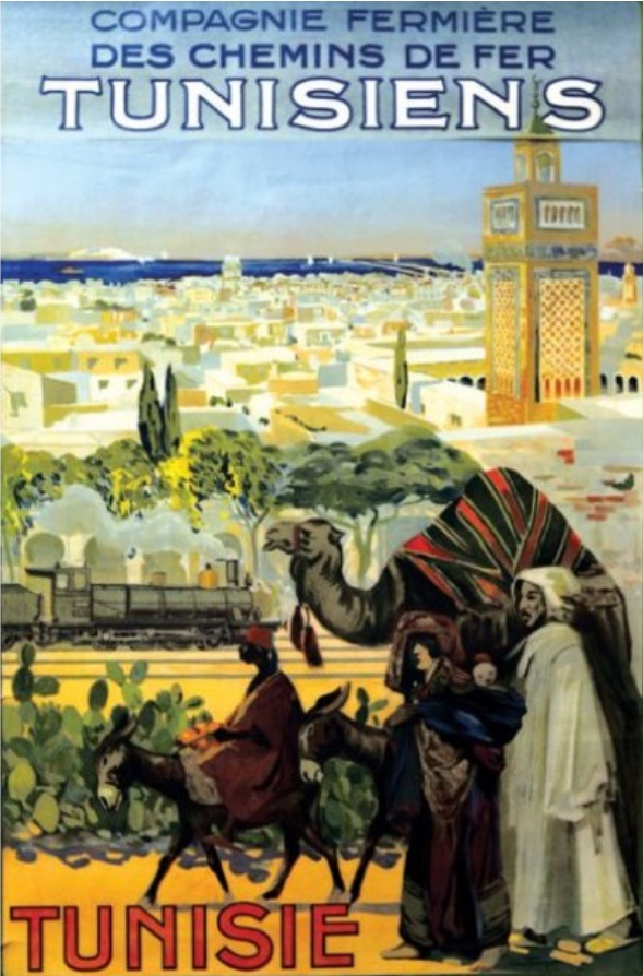 Affiche Compagnie Fermière des Chemins de Fer Tunisiens.